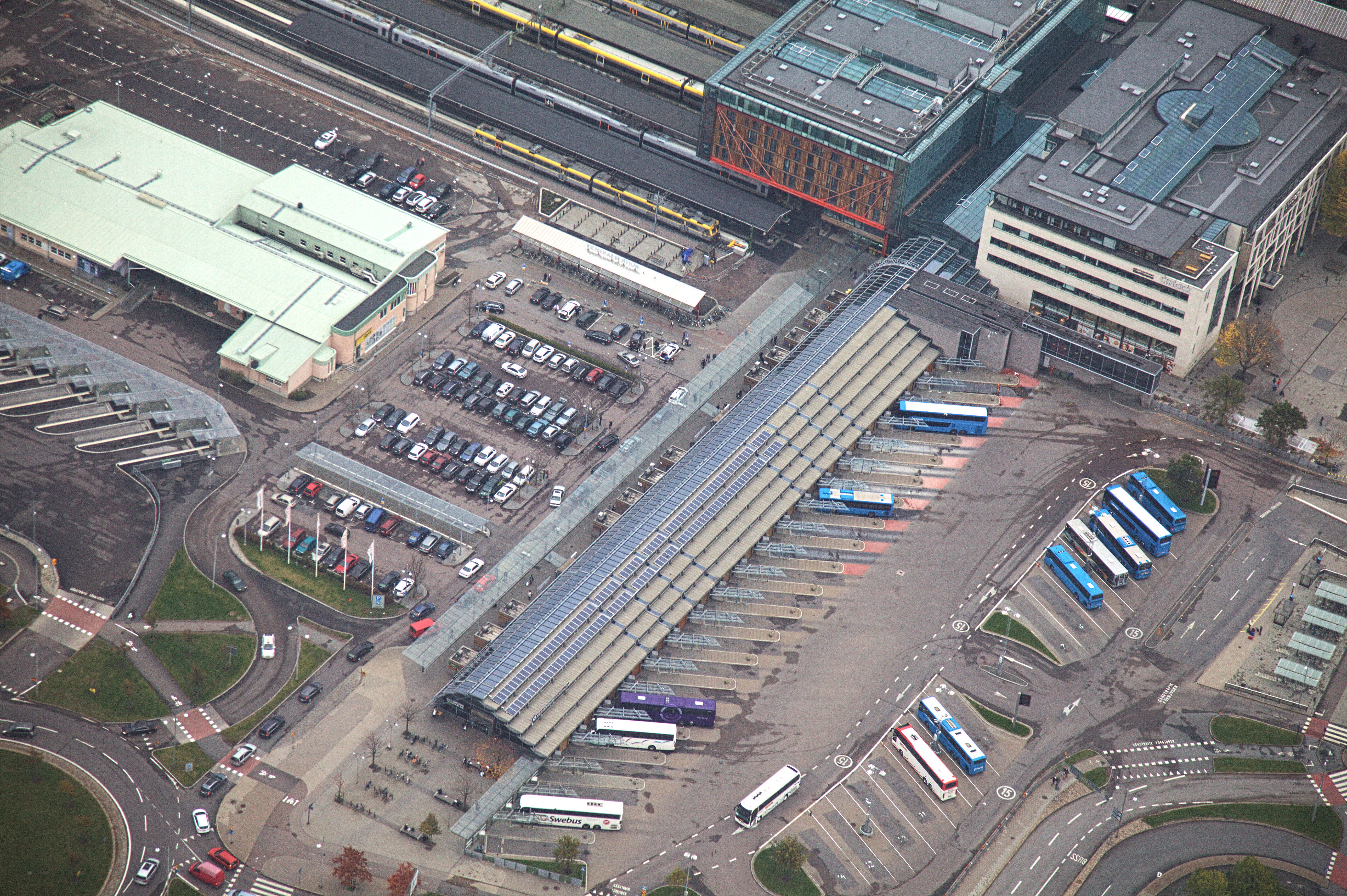 Photo taken on a helicopter over Gothenburg